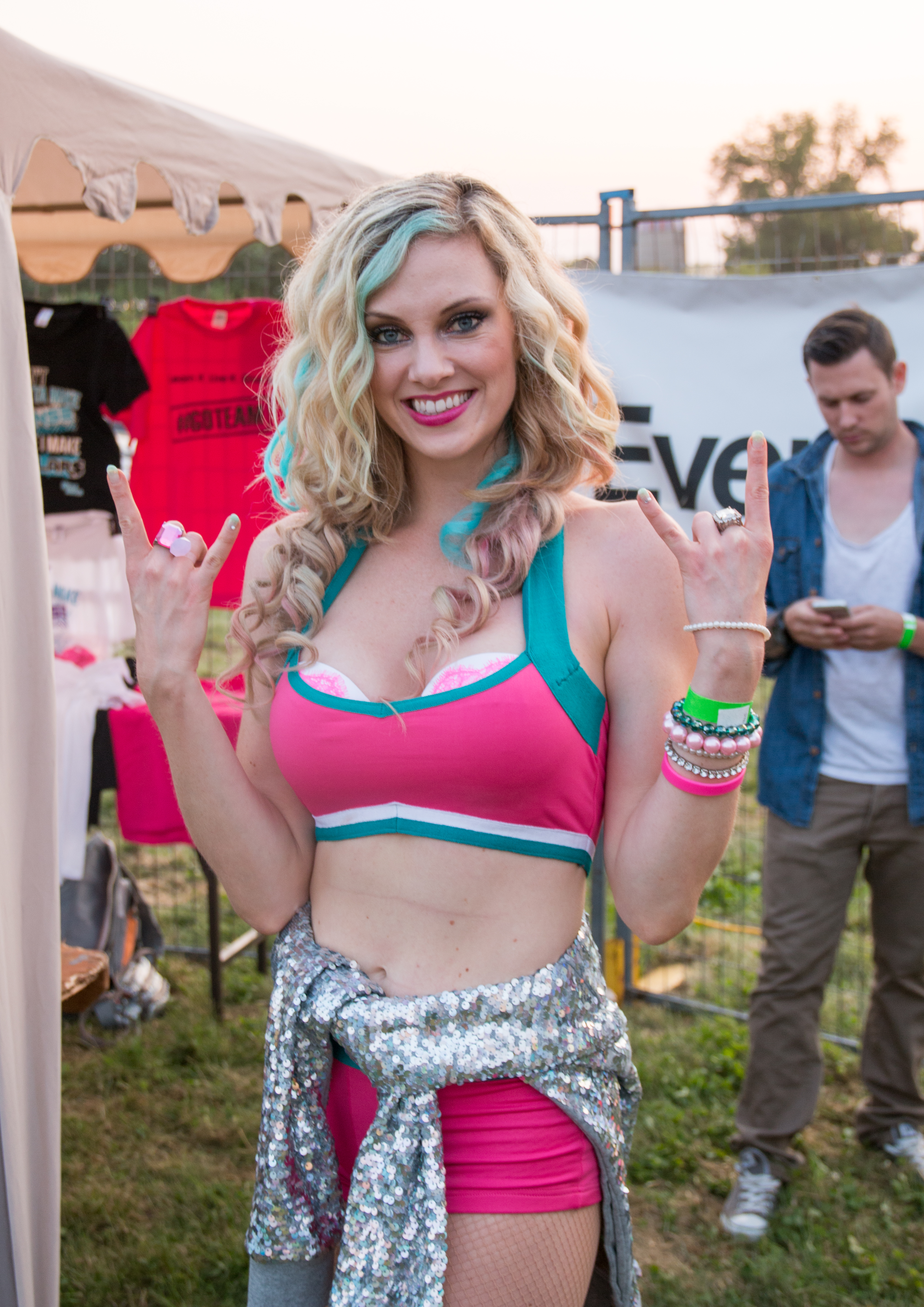 Canadian performer Nicole Arbour at the Hamilton Festival of Friends